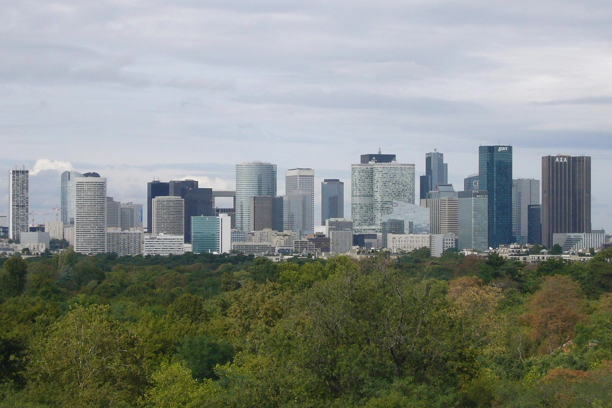 Skyline of Paris La Défense.